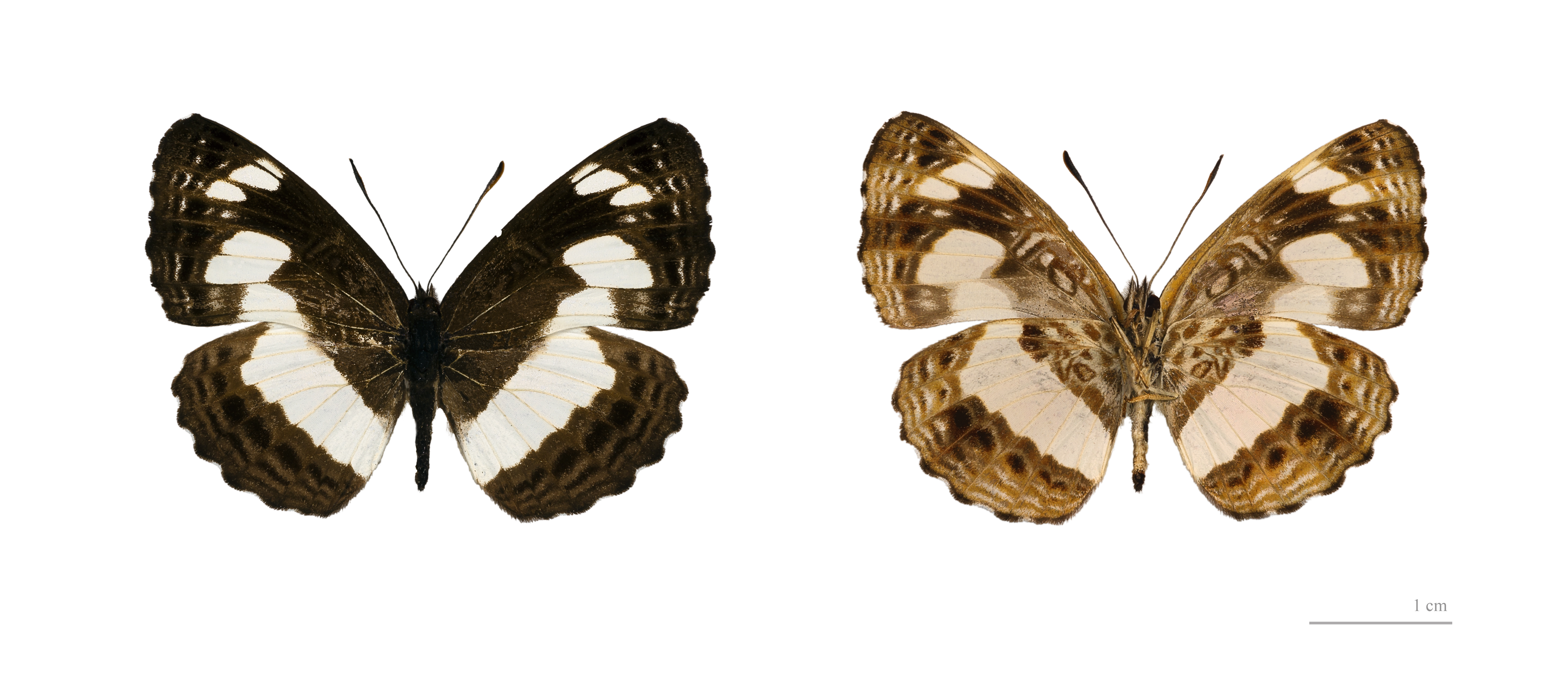 ♂ - Two views of same specimen Locality: Mandraka forest, Antananarivo Province, Madagascar. TL